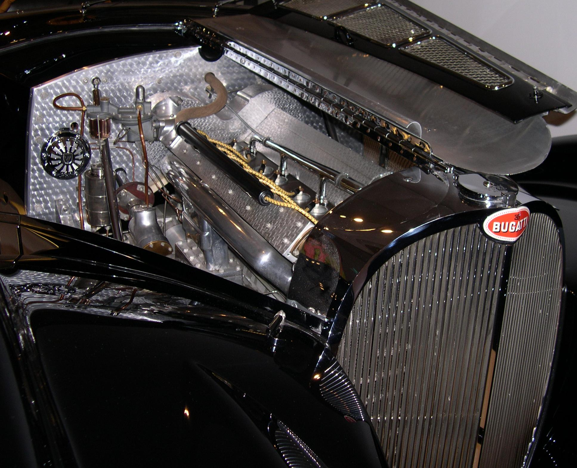 1937 Bugatti Type 57SC Gangloff Drop Head Coupe From the Ralph Lauren collection on display at the Boston Museum of Fine Arts. Photo taken in 2005. Source: Photo by User:Sfoskett